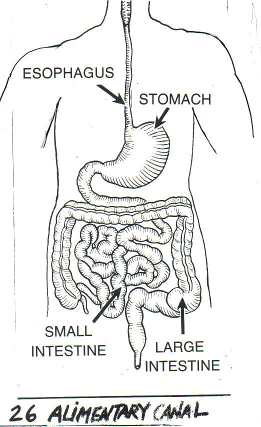 line art drawing of the alimentary canal